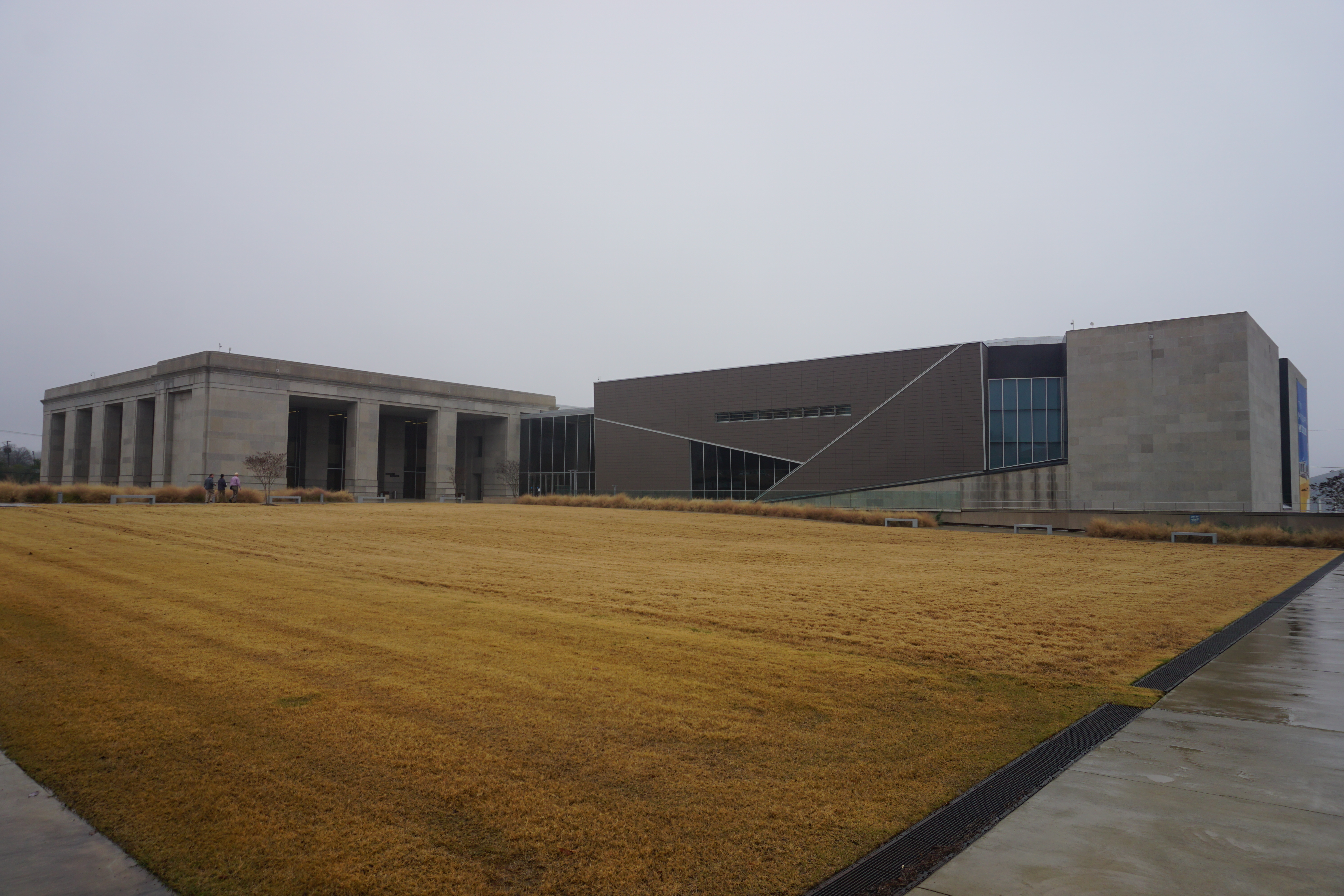 The Museum of Mississippi History and the Mississippi Civil Rights Museum in Jackson, Mississippi (United States).